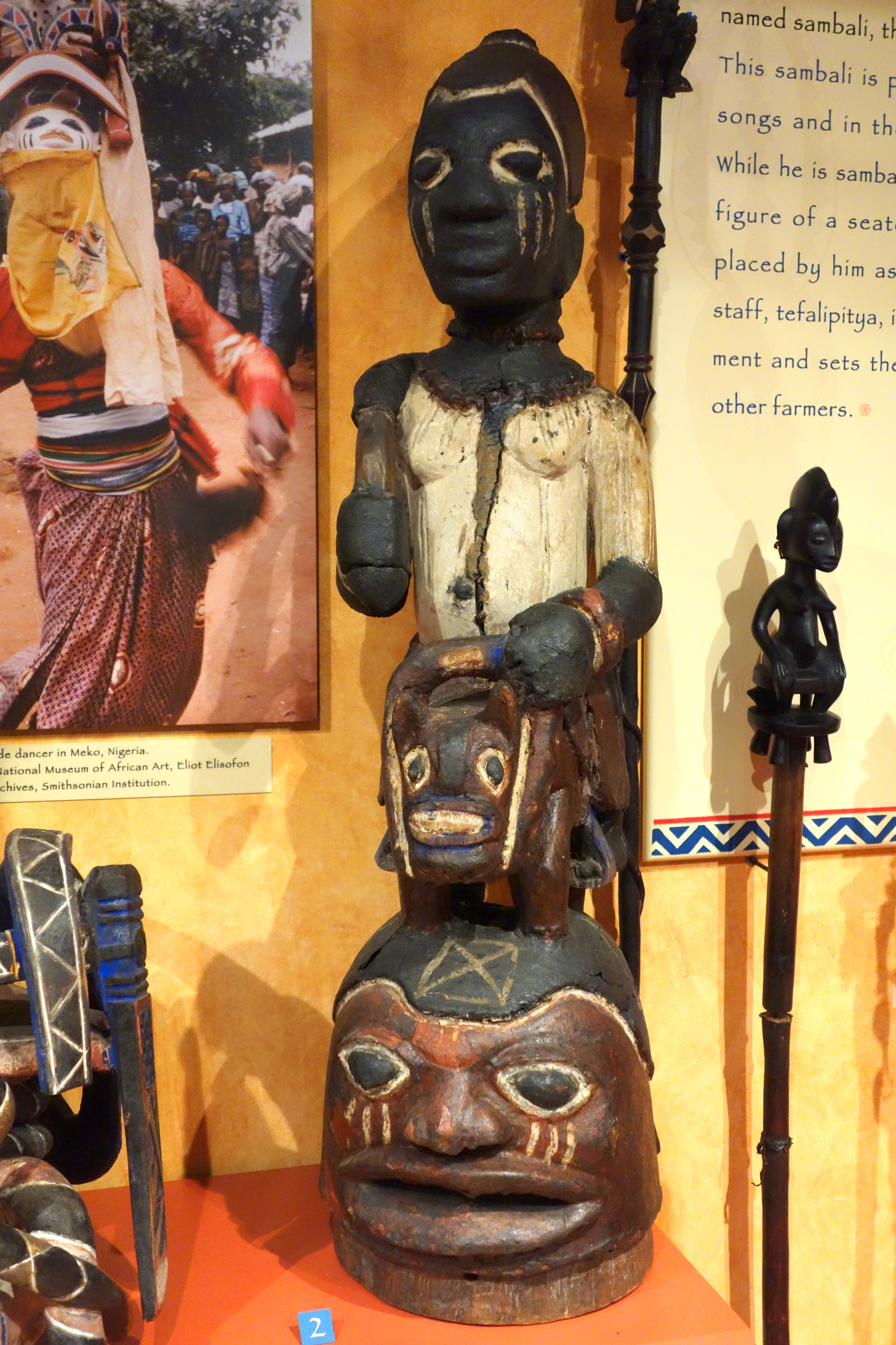 Exhibit in the Glenbow Museum, 130 9th Ave S.E., Calgary, Alberta, Canada. This artwork is old enough so that it is in the public domain.